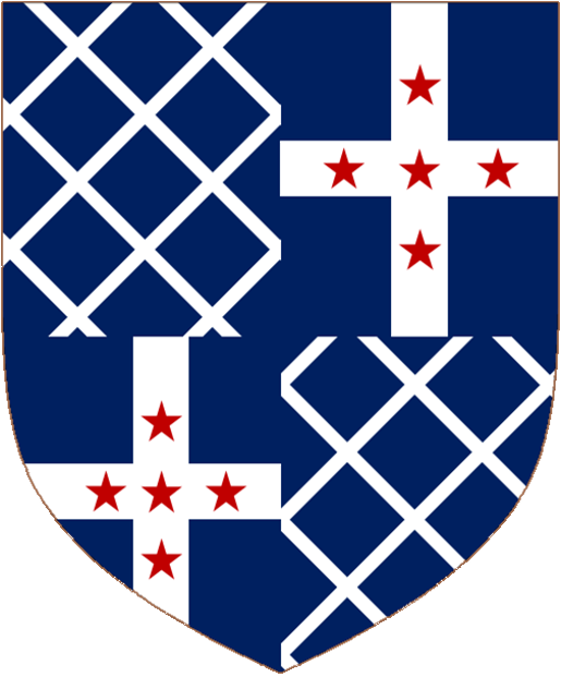 Arms of Verney-Cave, as borne in 1968 by Thomas Verney-Cave, 7th Baron Braye & in 2015 by his daughter Mary Penelope Verney-Cave, 8th Baroness Braye, wife of Lt-Col Edward Aubrey-Fletcher: Quarterly: 1st and 4th: Azure fretty argent (Cave); 2nd and 3rd: Azure, on a cross argent five mullets gules (Verney) (Debrett's Peerage 1968 & 2015)